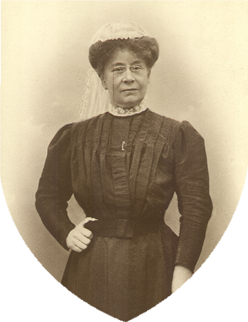 Isla Stewart one of the most famous matrons